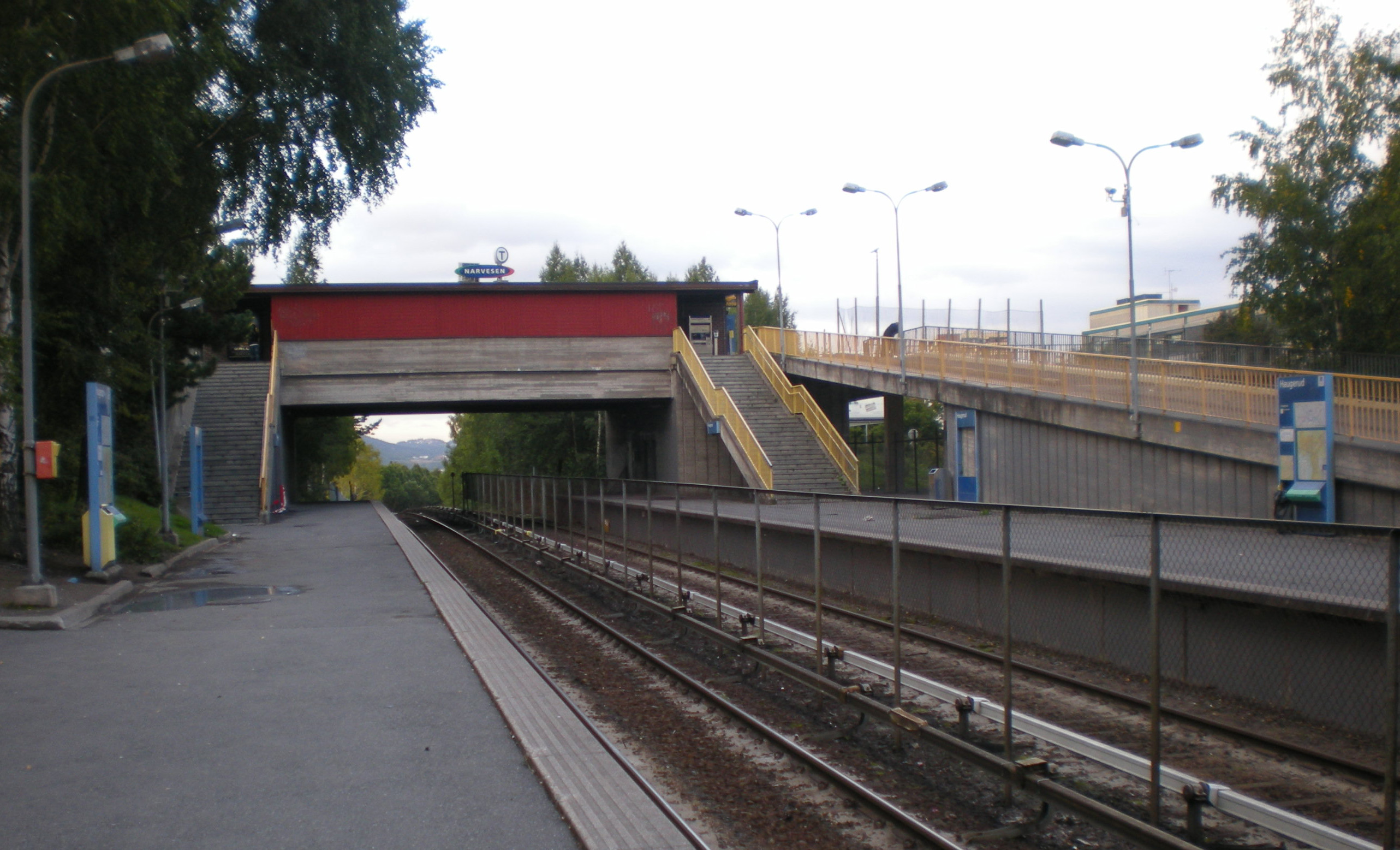 Haugerud subway station. The photograph is taken on the platform bounded for the center of Oslo.